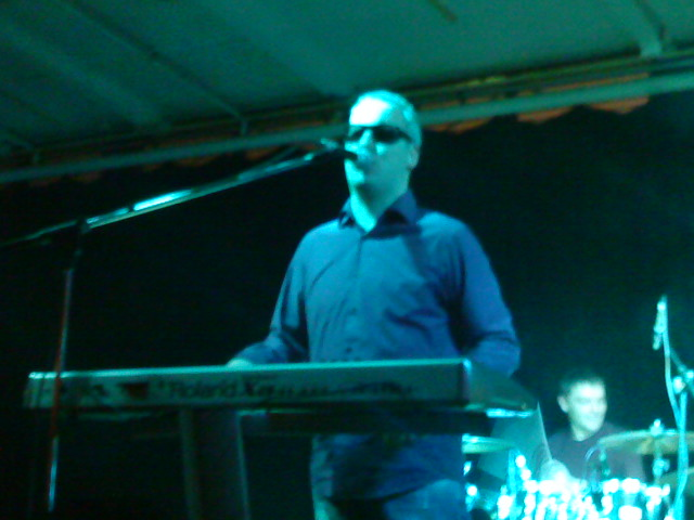 Sasa Matic